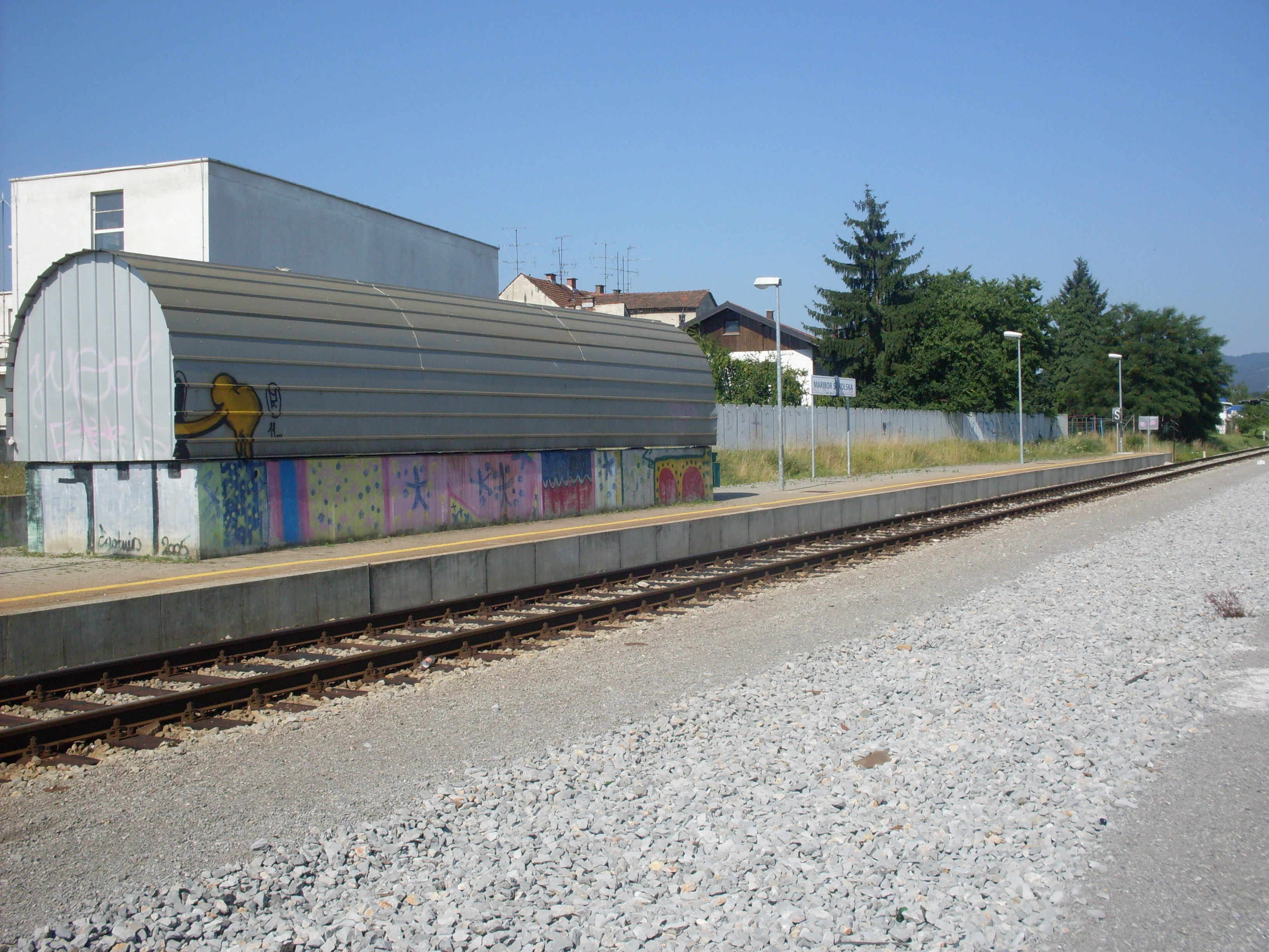 Railway halt Maribor Sokolska in western suburb of Maribor. A pedestrian underpass can be seen on left.